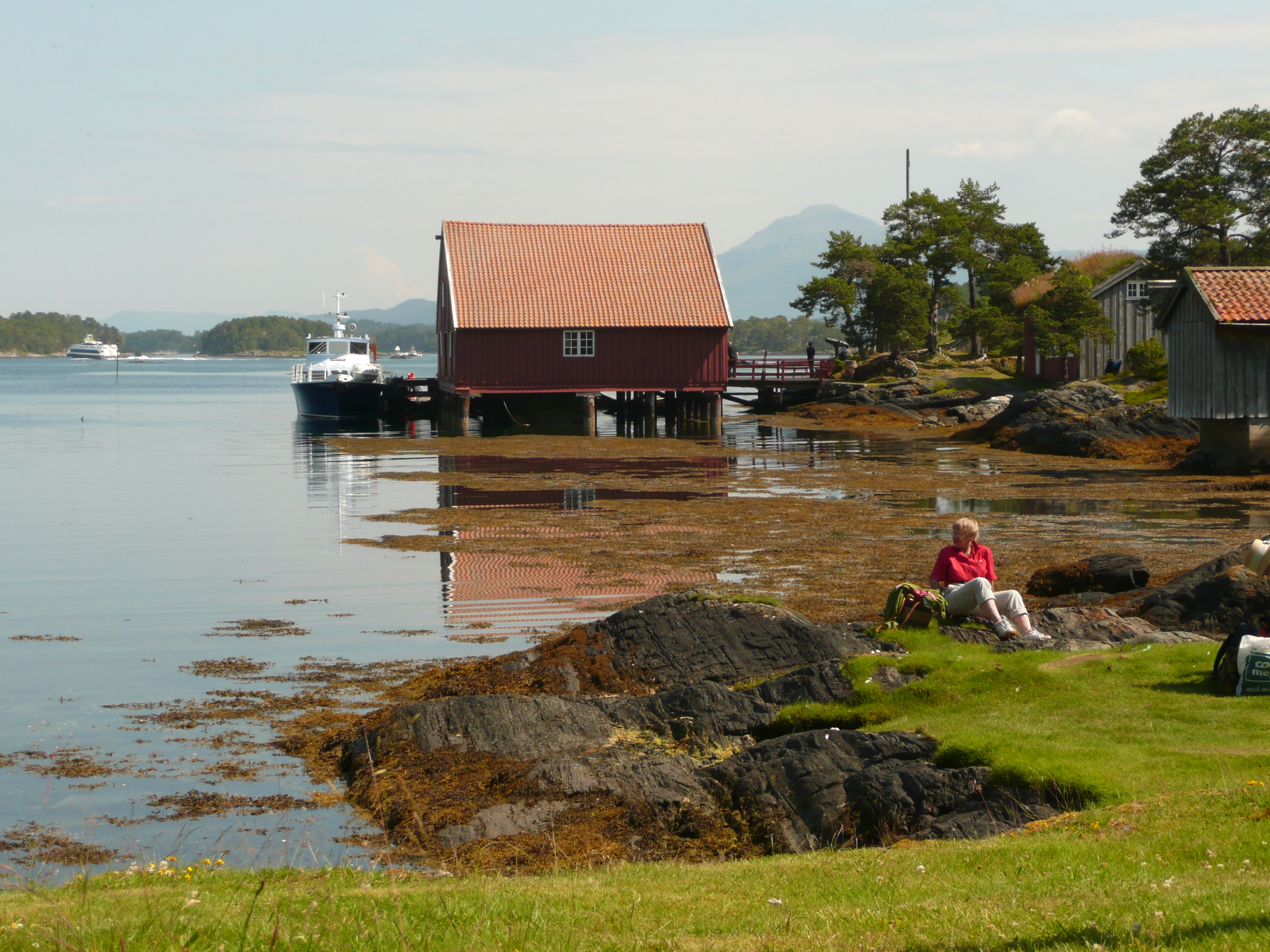 View of the boat dock and fisheries museum buildings seen from the coast, in Hjertøya island, Molde. picture taken in july 2011